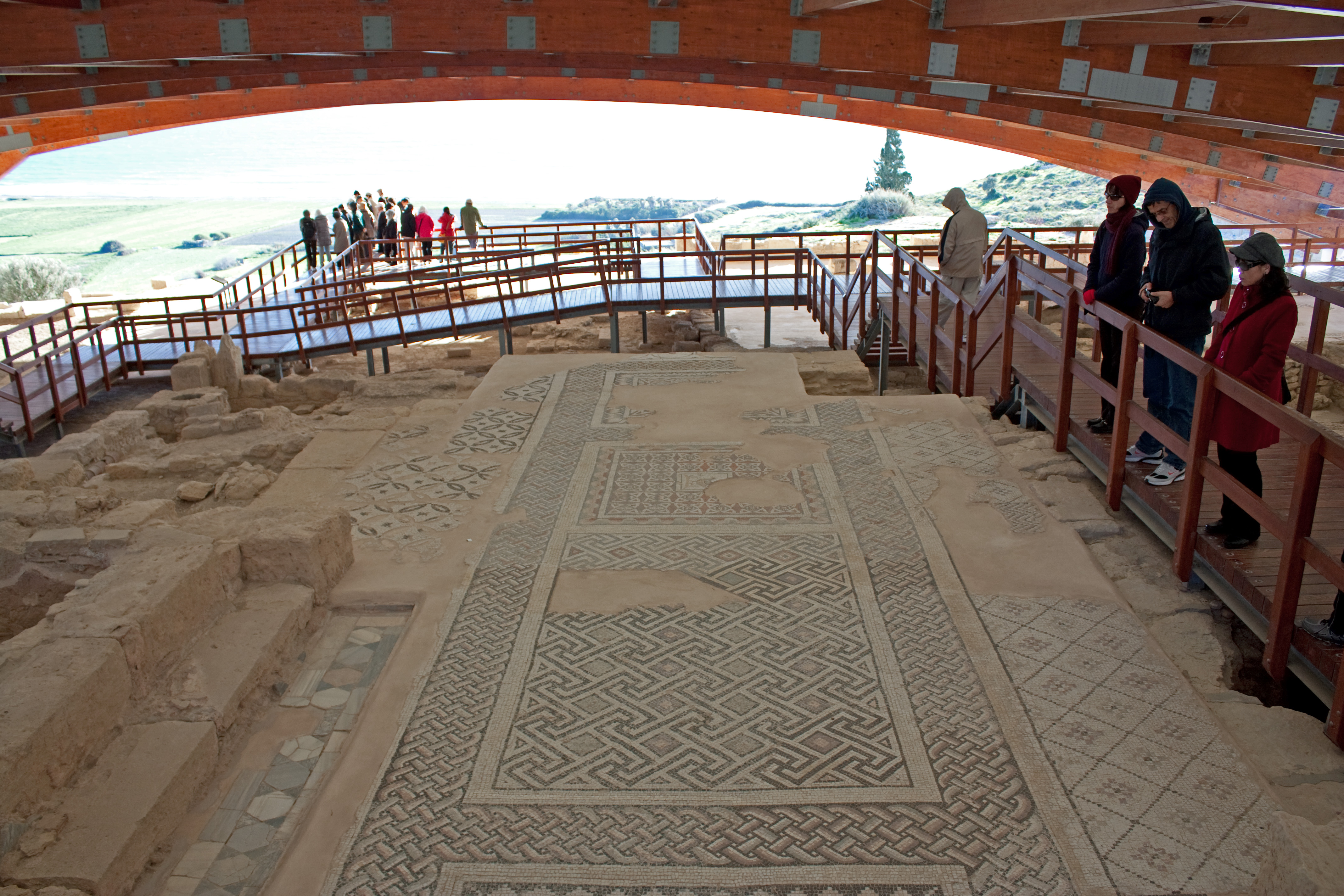 Mosaic in the House of Eustolios in Kourion, Cyprus.